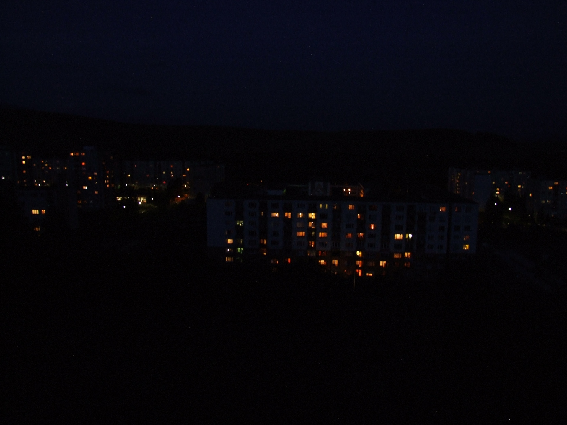 podbreziny at night